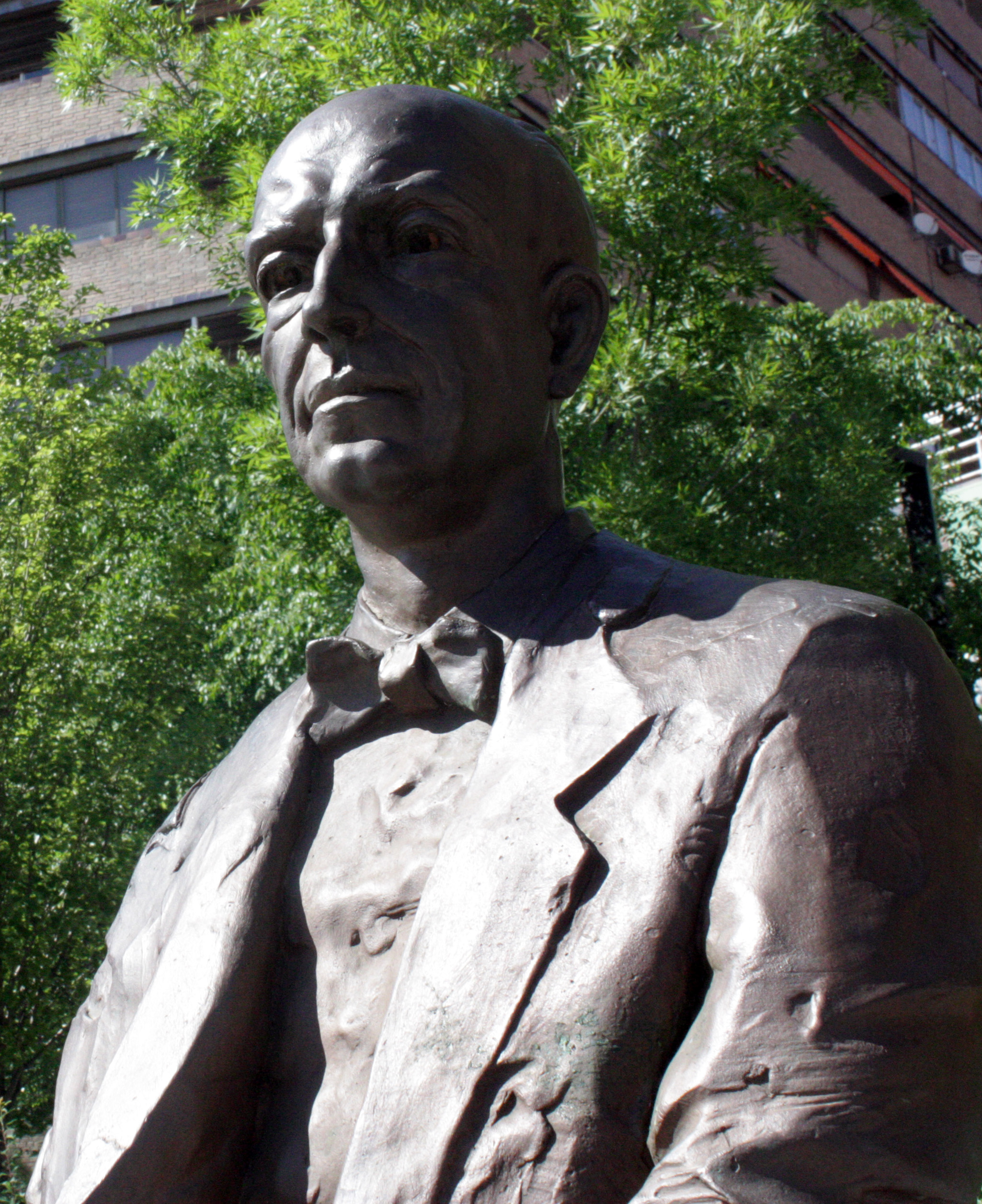 Statue of Manuel de Falla on the Avenida de la Constitución in Granada, Spain. Derivative work (cropped): Voceditenore